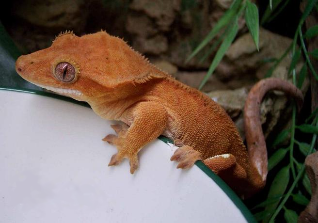 A gecko Rhacodactylus ciliatus (orange phase).